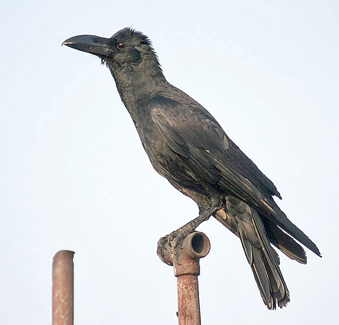 Jungle Crow (Corvus levaillanti) in Kolkata, West Bengal, India.